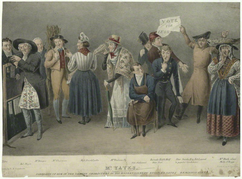 Hand-coloured lithograph portrait of Richard Yates (c. 1706–1796), English comic actor, in a dozen roles.